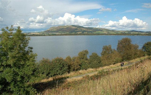 Loch Leven View Looking across the loch on a fine but showery September afternoon. We enjoyed watching the gliders from Portmoak, on the other side of the loch, catching thermals around the hills.